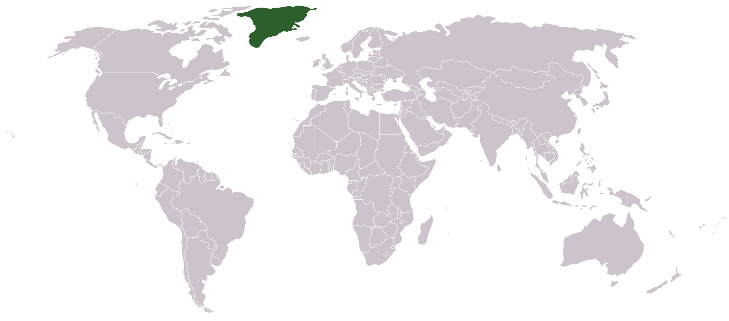 Created by Clevelander from public domain Wikimedia Commons source